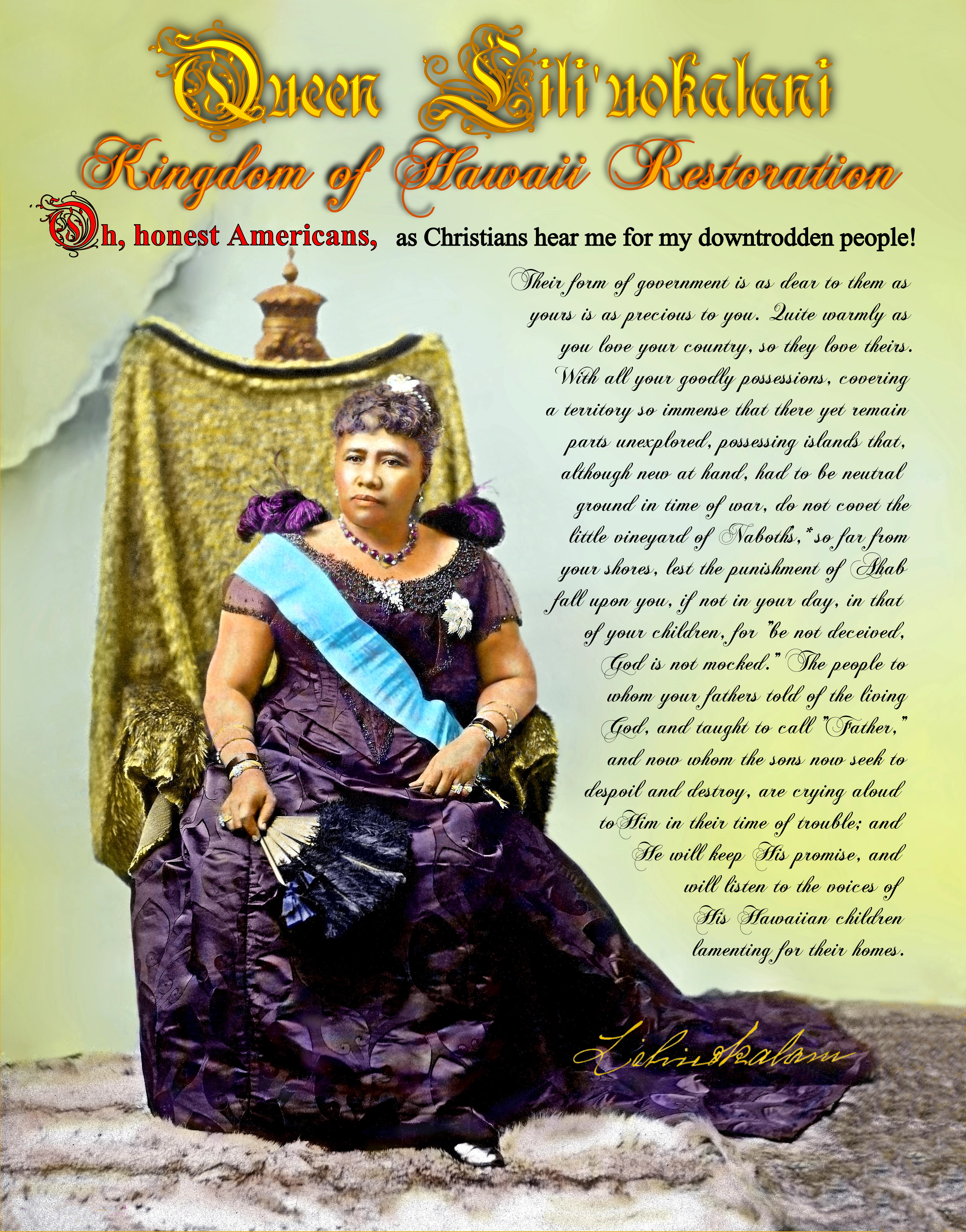 This is a digital and color restoration of a public domain work that alters the work entirely, making it an original, copy protected work of art. It is being released by the artist with a creative commons license. Queen Liliuokalani, official photo with the words of the Queen overlaid. Poster for the annual Queen Liliuokalani Kingdom Restoration Spiritual Walk in Honolulu, Hawaii. The walk starts at Mauna ʻAla (Royal Mausoleum of Hawaii) and stops at the Iolani Palace and then stops at the Queen Liliuokalani statue.